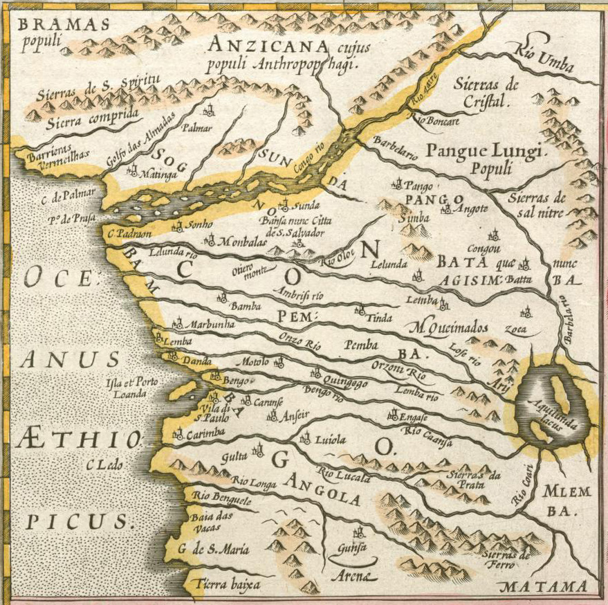 17th-century map of the Kingdom of Congo. This map was published as an inset labelled Congi regni in Africa Christiani nova descriptio. alongside a larger map Abissinorum sive Pretiosi Joannis imperium. It was published as an update to Mercator's Atlas sive cosmographicae meditationes de fabrica mundi et fabricati figura of 1595 (in spite of the filename, this is not a map made by Mercator himself!).